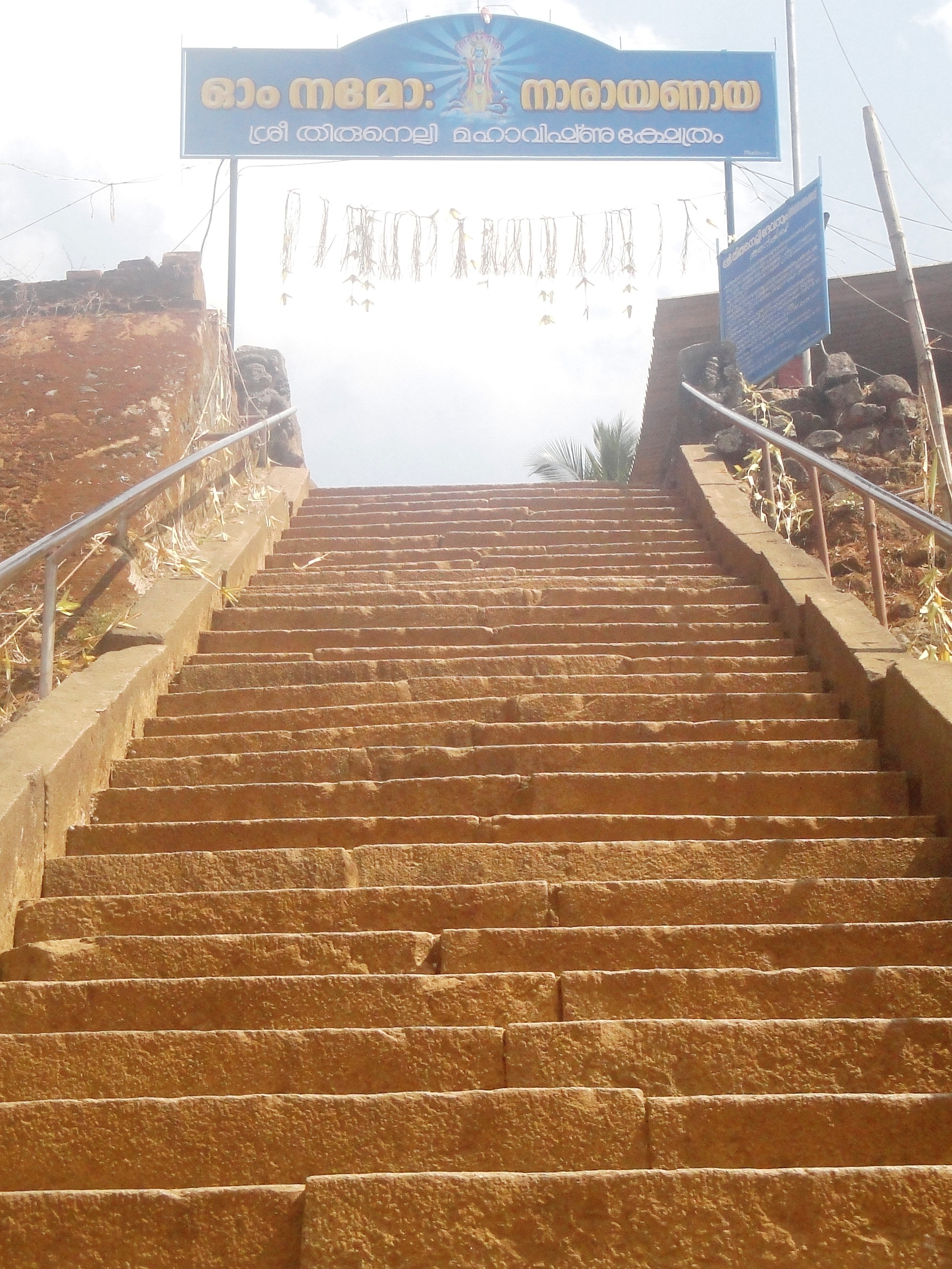 Thirubnelli Temple